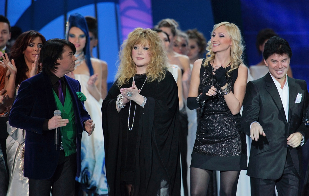 “Fashion designer Valentin Yudashkin presents Marine Collection”. Fashion designer Valentin Yudashkin, left, presenting hew new Marine Collection at the Grand Kremlin Palace. From right to left: singers Oleg Gazmanov, Alla Pugacheva and Kristina Orbakaite.